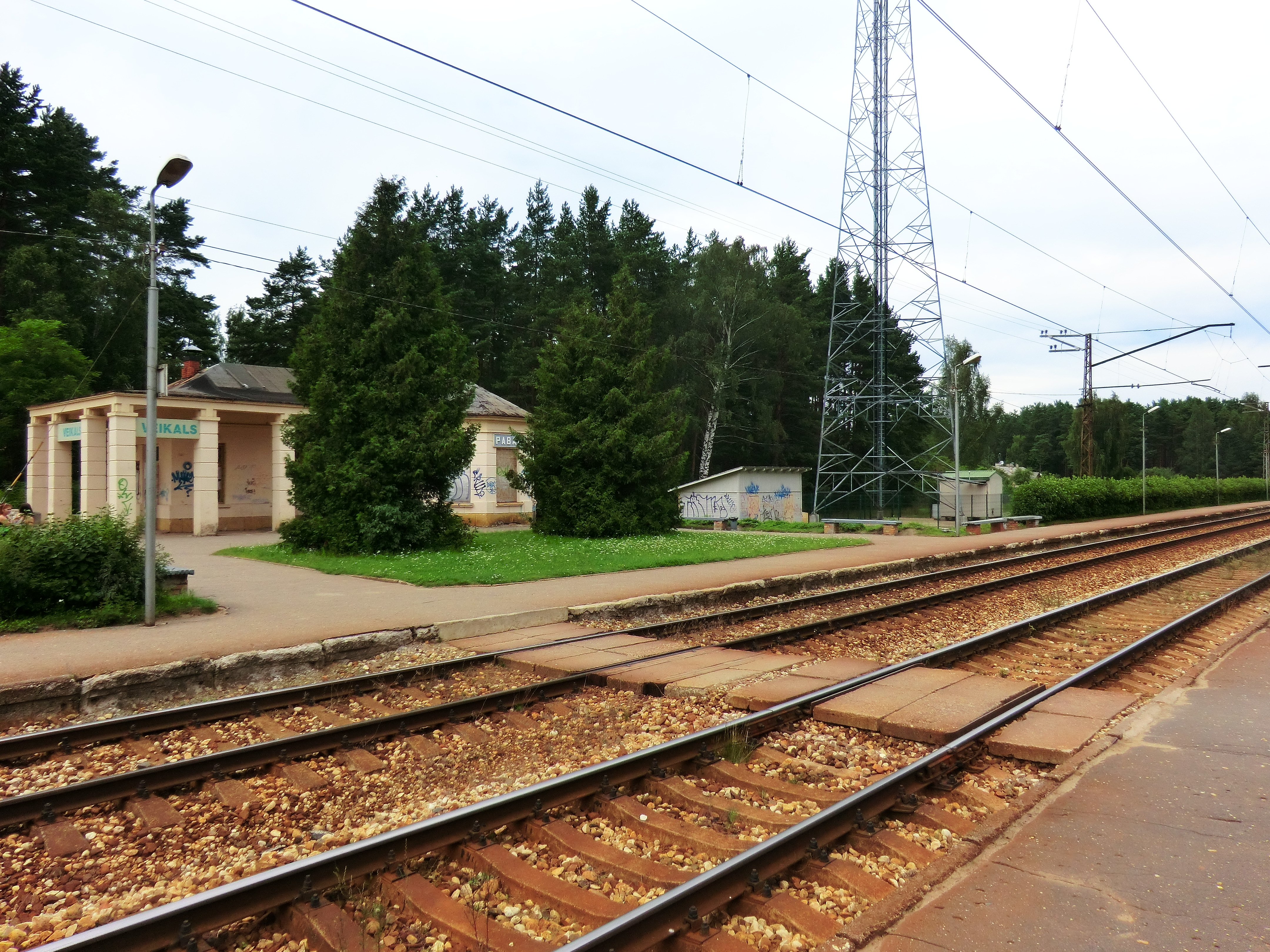 Train stop Pabaži